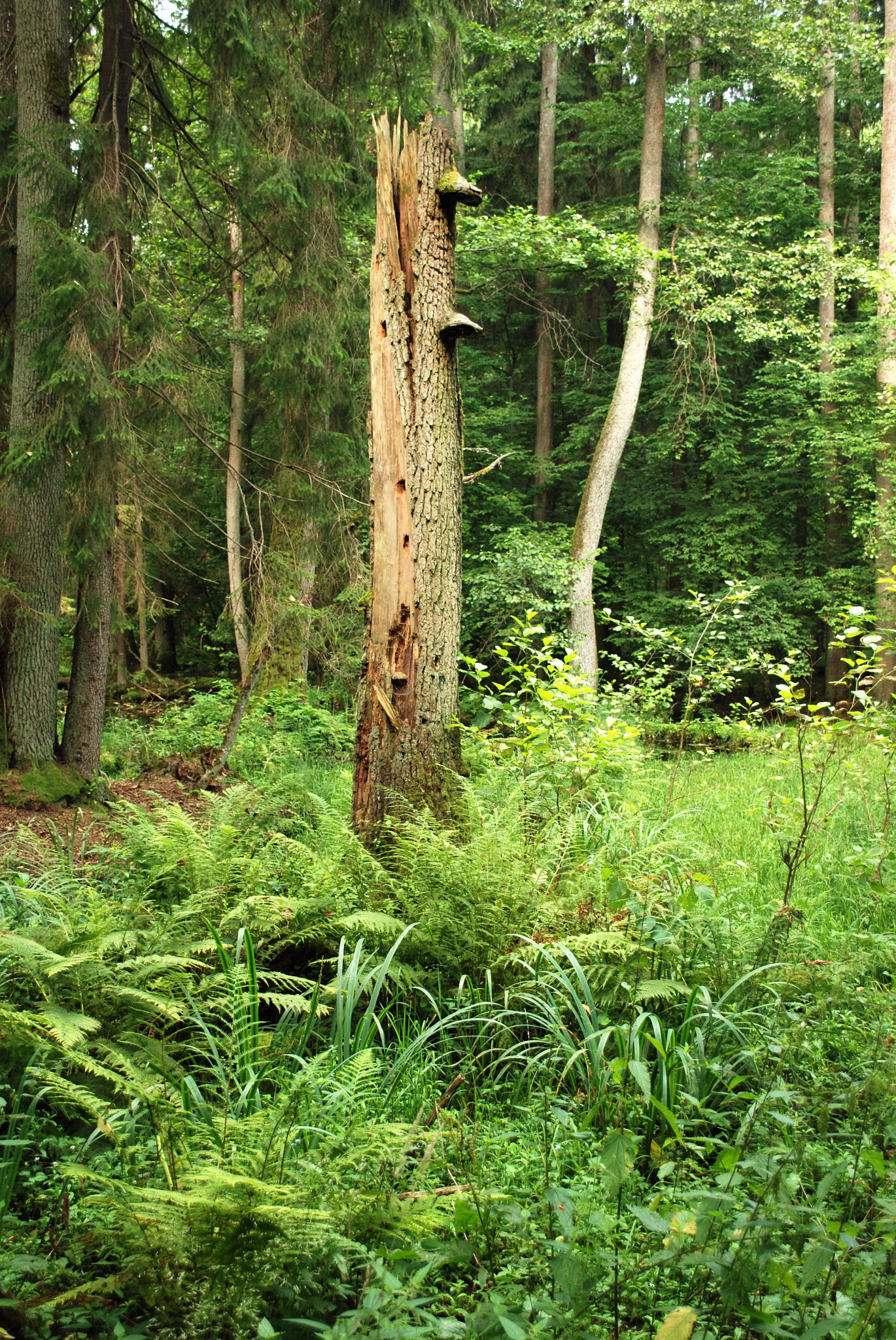 Białowieski National Park